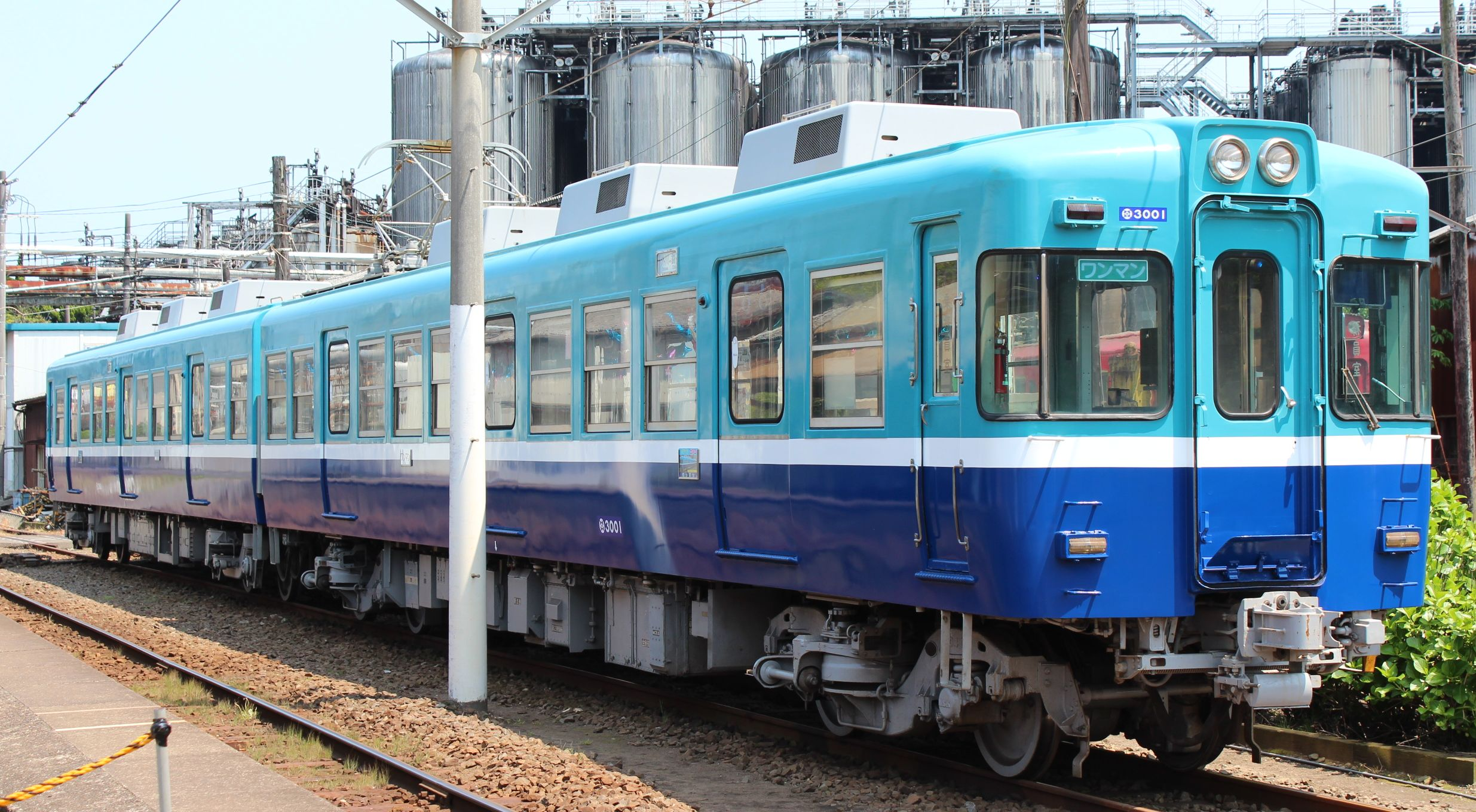 Choshi Electric Railway 3000 series EMU set 3001 at Nakanocho Depot